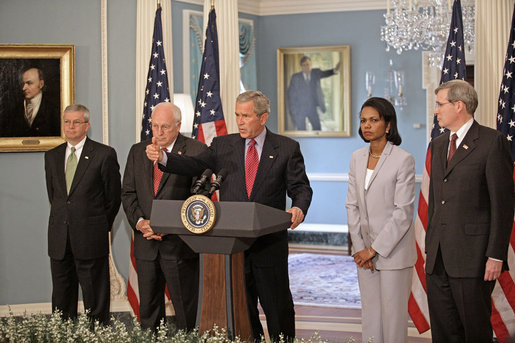 George W. Bush addresses the media from the U.S. State Department after a series of meetings discussing America's foreign policy